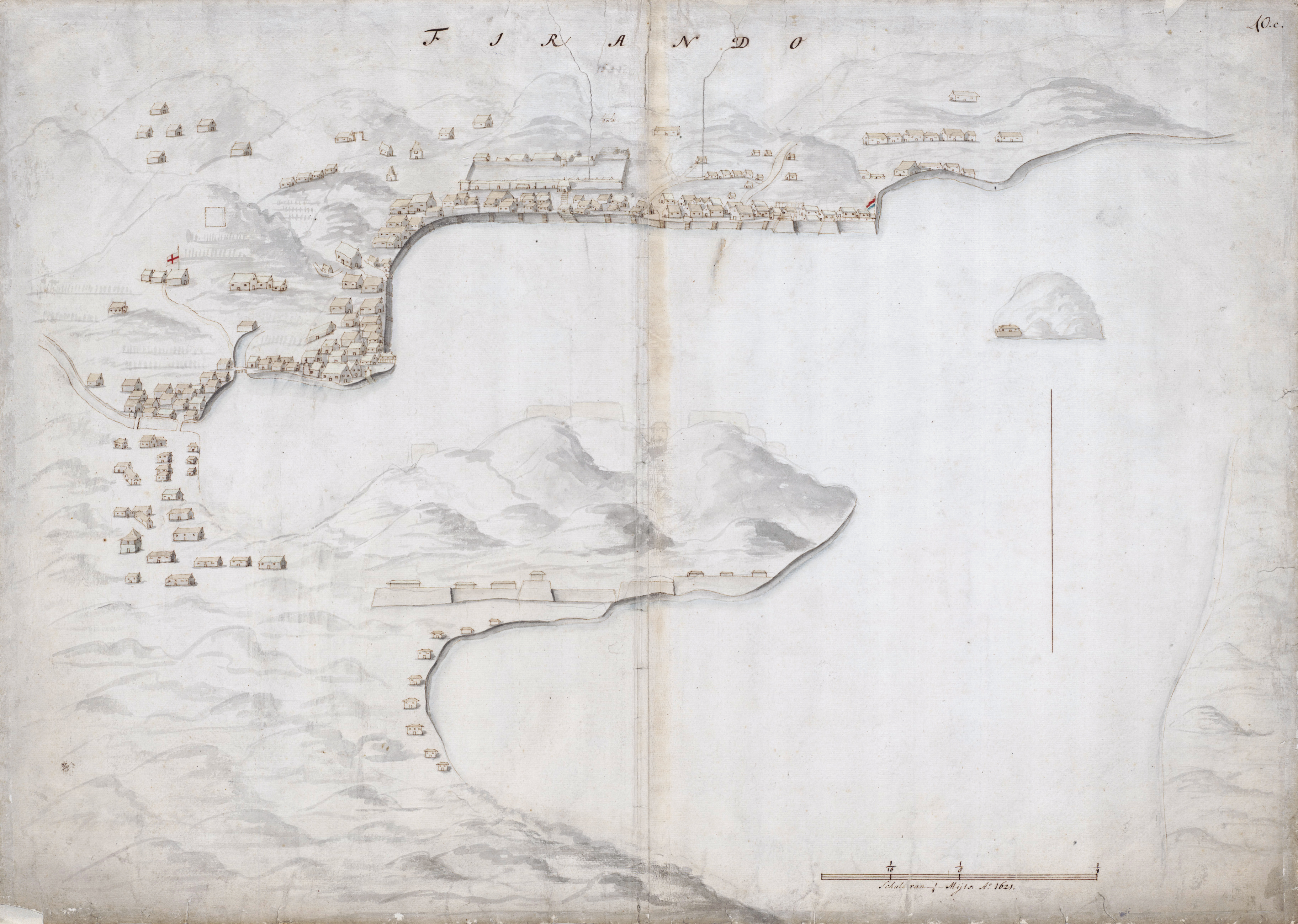 Topographical map of the bay of Hirado in 1621. To the right on the shore-line, the Dutch East India Company trading post is marked with the red-white-blue flag of the Netherlands. To the far left, somewhat back from the shore-line, notice the white flag with the red cross, possibly the St George's Cross of England. The English factory in Hirado was established in 1613. Richard Cocks was appointed as chief merchant. The factory was eventually closed in 1623